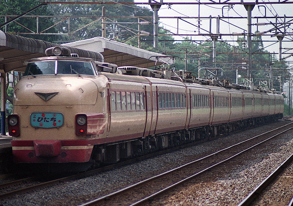 A JNR 485 series EMU on a Hitachi limited express service